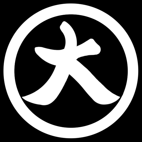 Japanese family crest "Maru ni Dai-no-ji", depicting a kanji "大" (dai, large) in a circle